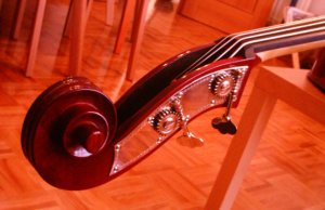 This is the pegbox of my double bass. It is a Gunter (made in Rumany). It is an affordable instrument.